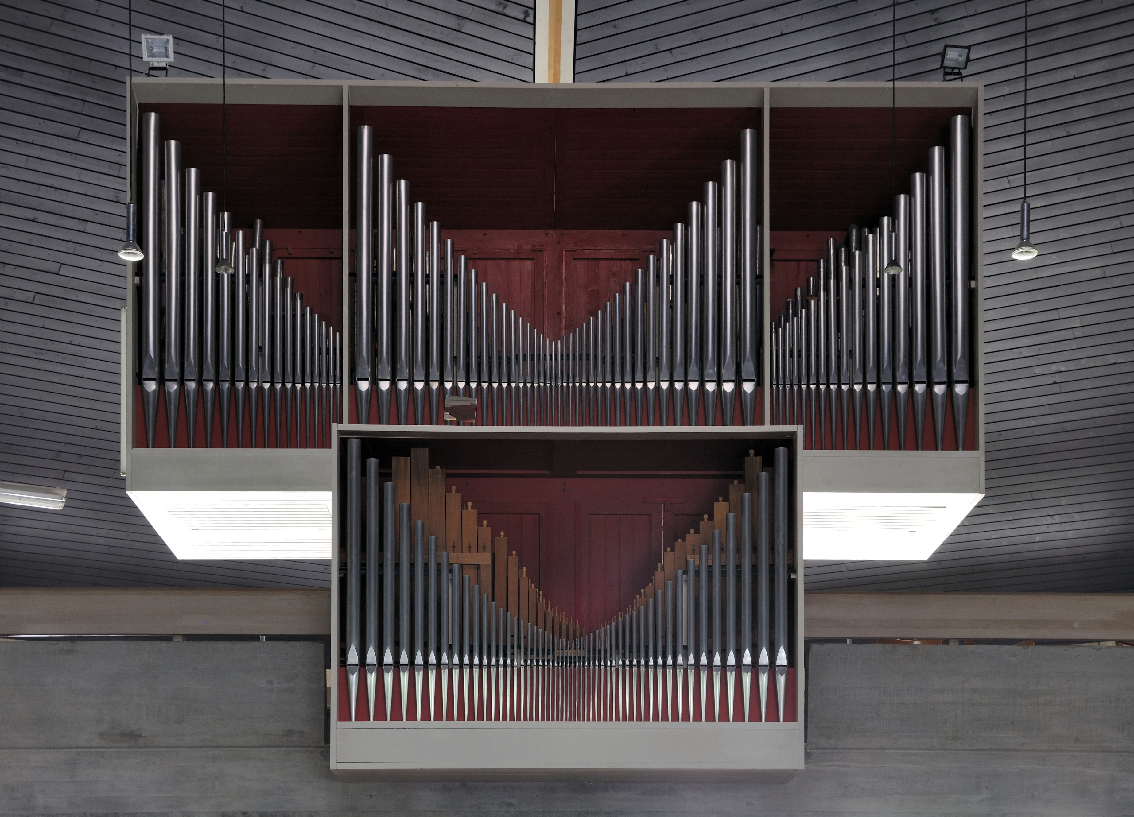 Todtnauberg: Church of Saint James, son of Zebedee